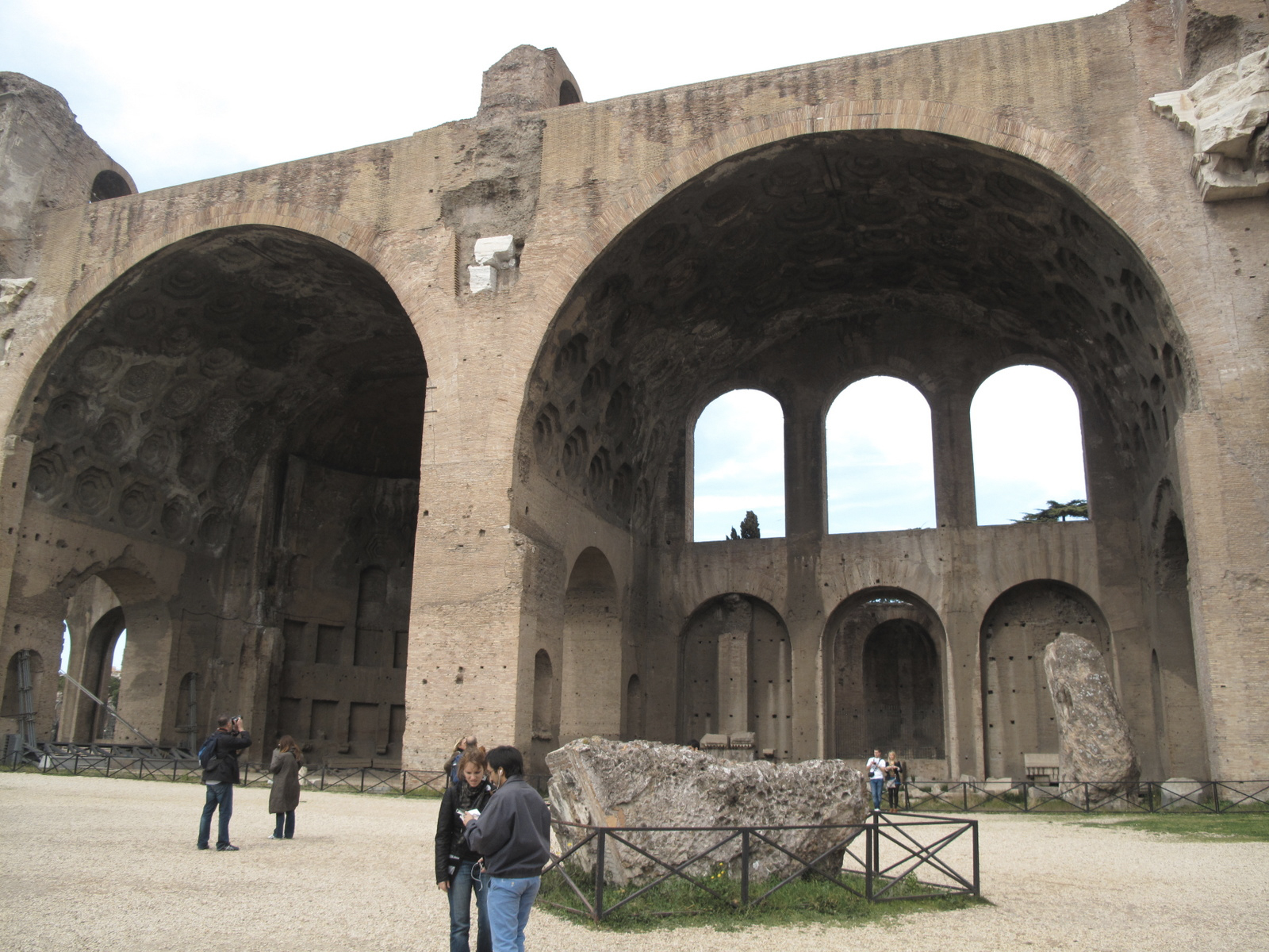 AWIB-ISAW: Basilica of Constantine (I) A view of the northern vaulted rooms of the Basilica of Constantine, also known as the Basilica of Maxentius or Basilica Nova. by R Rumora (2012) copyright: 2012 R Rumora (used with permission) photographed place: Roma (Rome) Published by the Institute for the Study of the Ancient World as part of the Ancient World Image Bank (AWIB). Further information